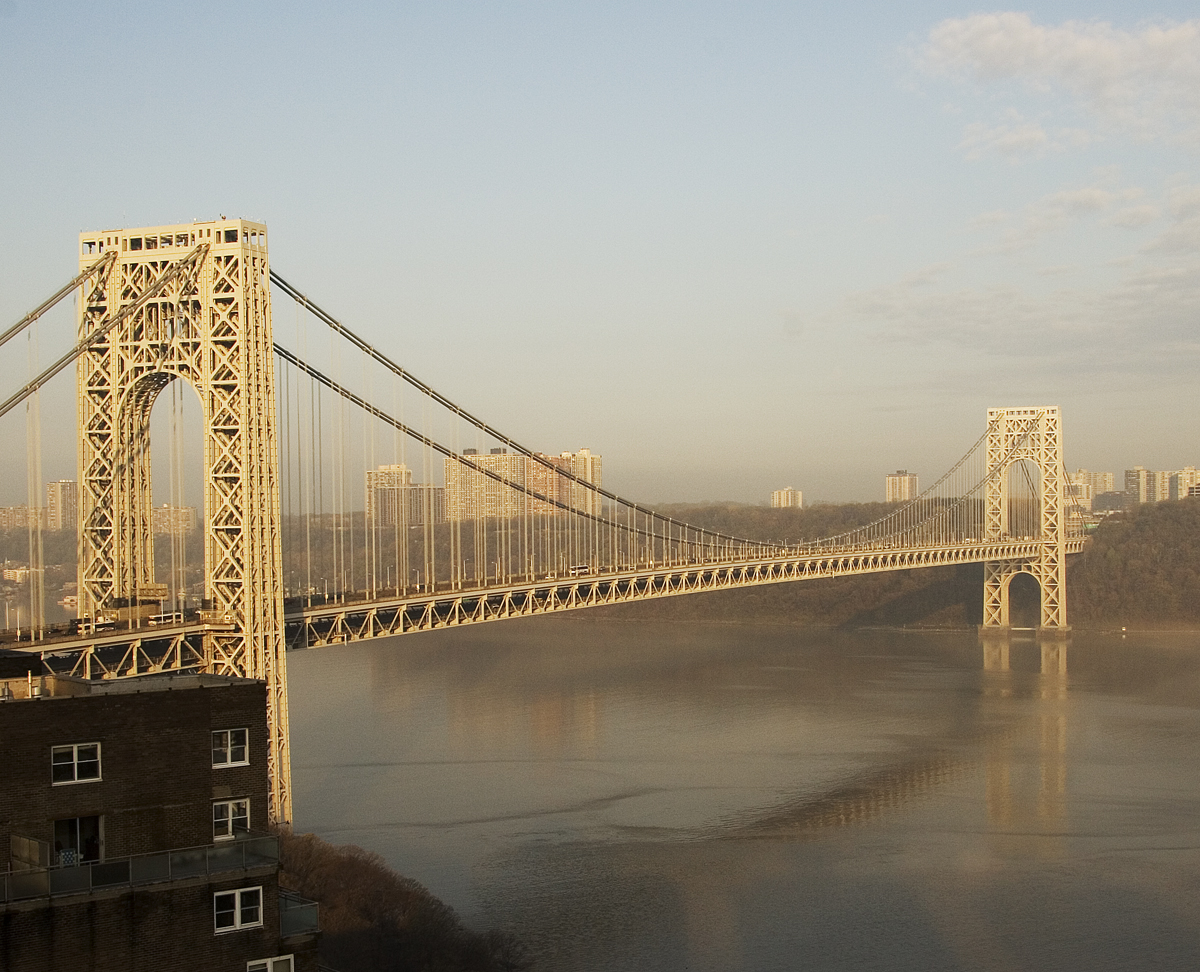 George Washington Bridge looking from Manhattan to New Jersey. Early morning, spring 2007.